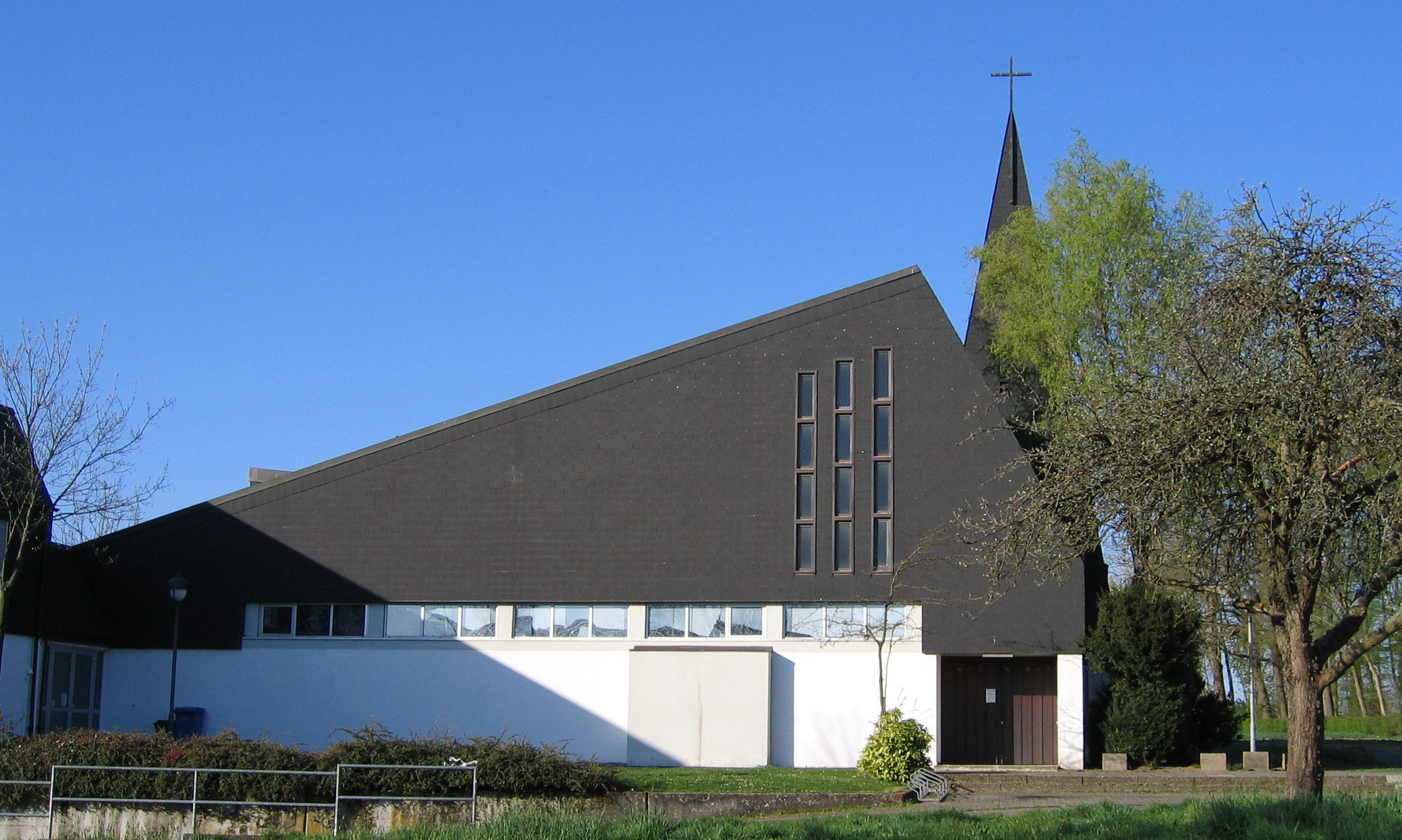 view of Alsenborn, Germany